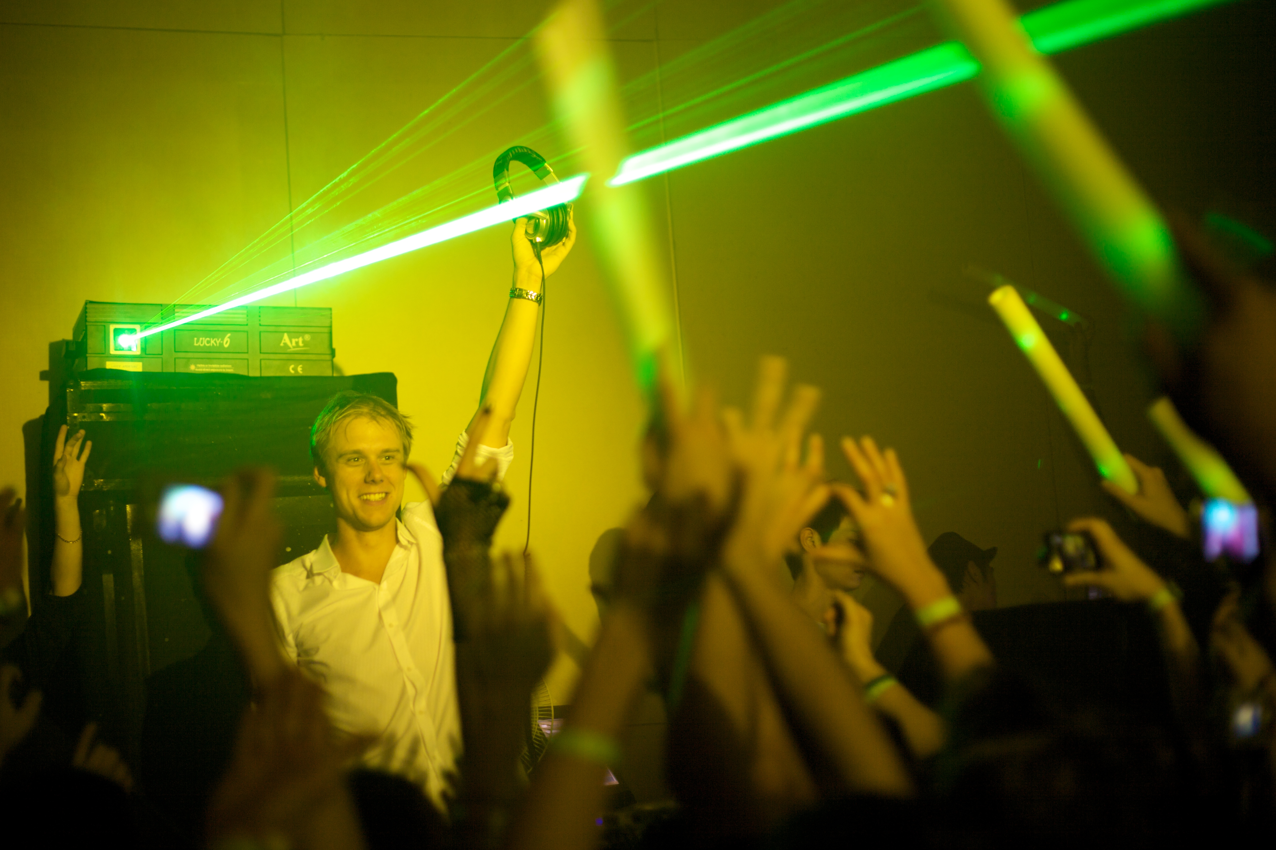 Armin van Buuren in Shangai, M2.